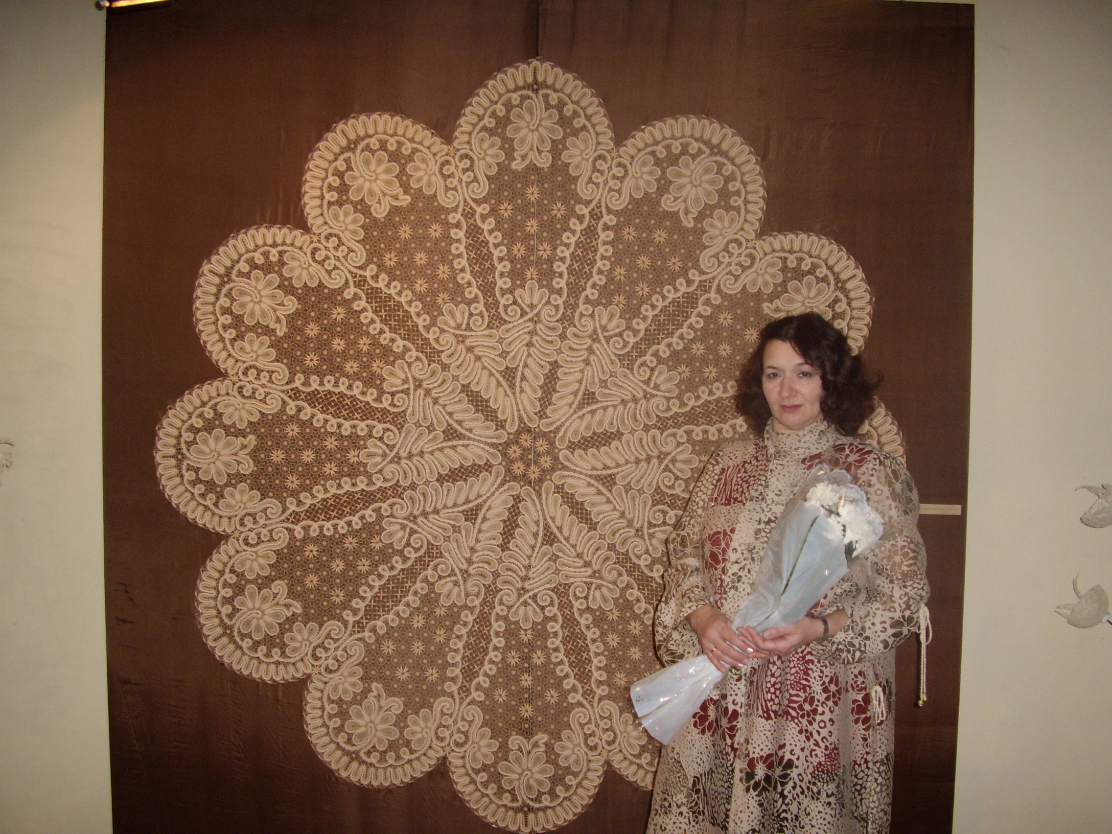 Kuprina Elena Petrovna - the artist of a lace, 1956 of the river.